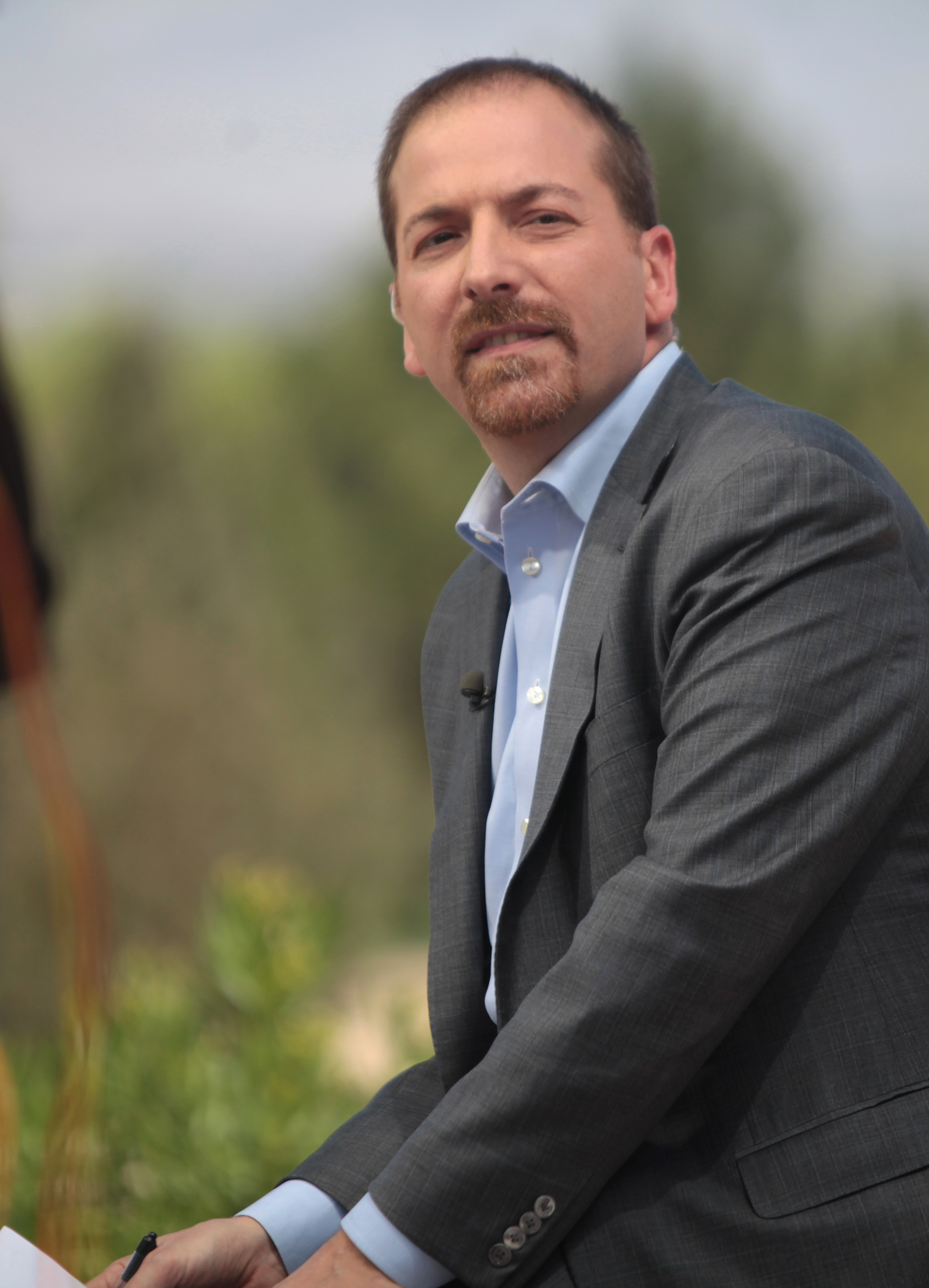 Chuck Todd speaking at the Desert Vista Community Center on U.S. Senator Rand Paul's Presidential announcement tour in Las Vegas, Nevada.